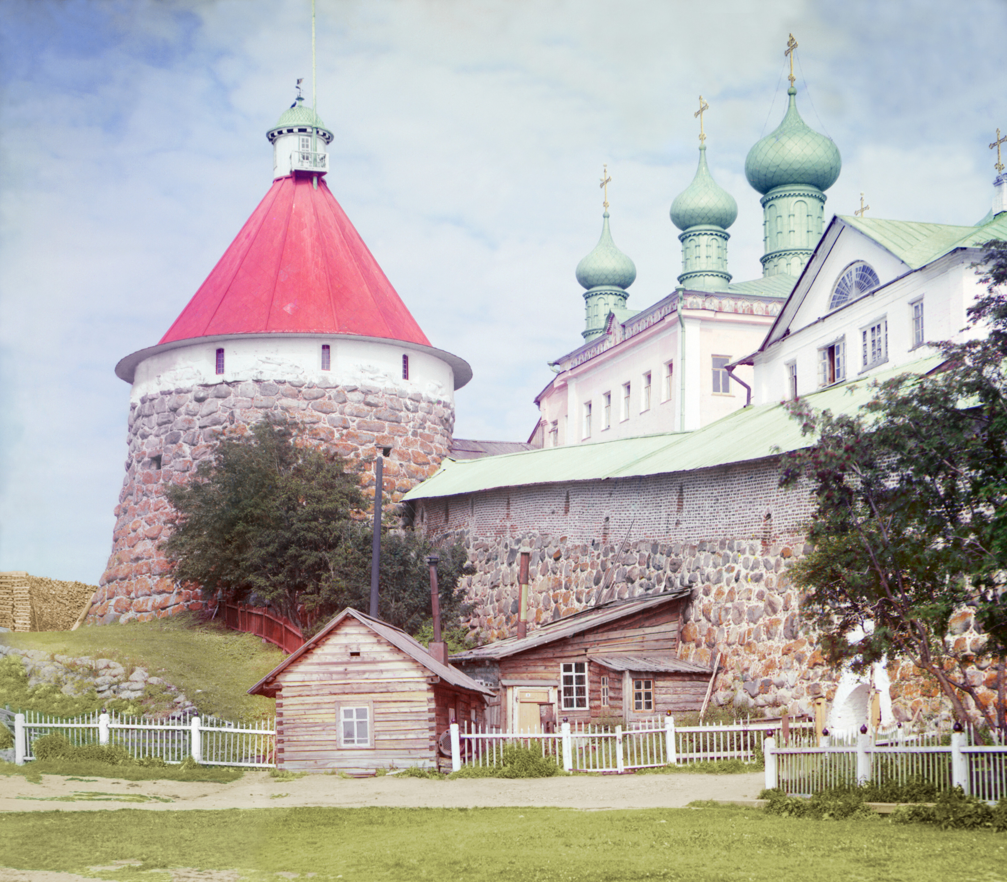 Uglovai︠a︡ bashni︠a︡ Troit︠s︡kago sobora v Solovet︠s︡kom m-ri︠e︡. Solovet︠s︡kie ostrova. Corner tower of the Trinity Cathedral in Solovetsky Monastery in 1915.